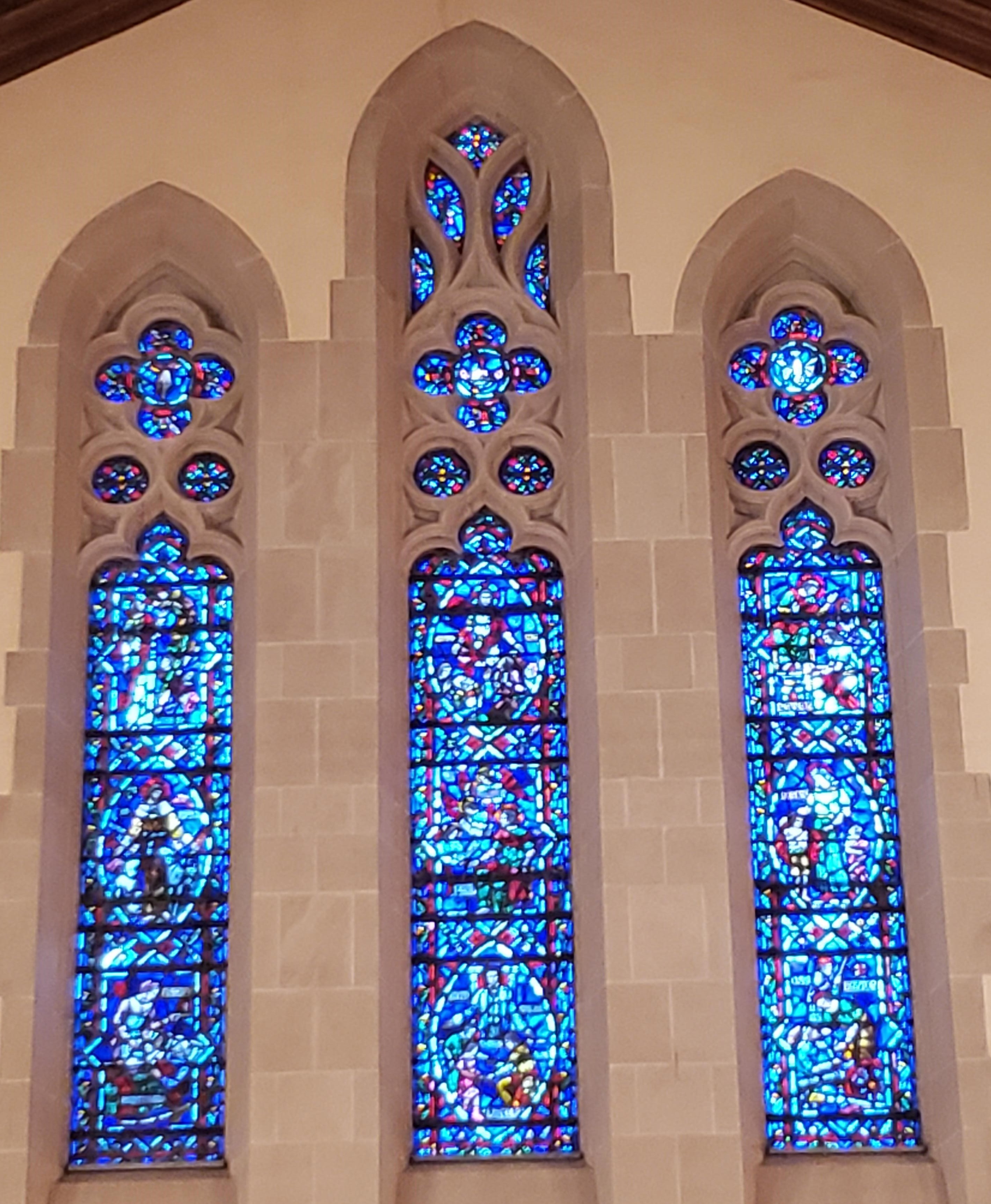 Window of Love and Brotherhood, behind the Chancel, at First Presbyterian Church, Springfield, IL